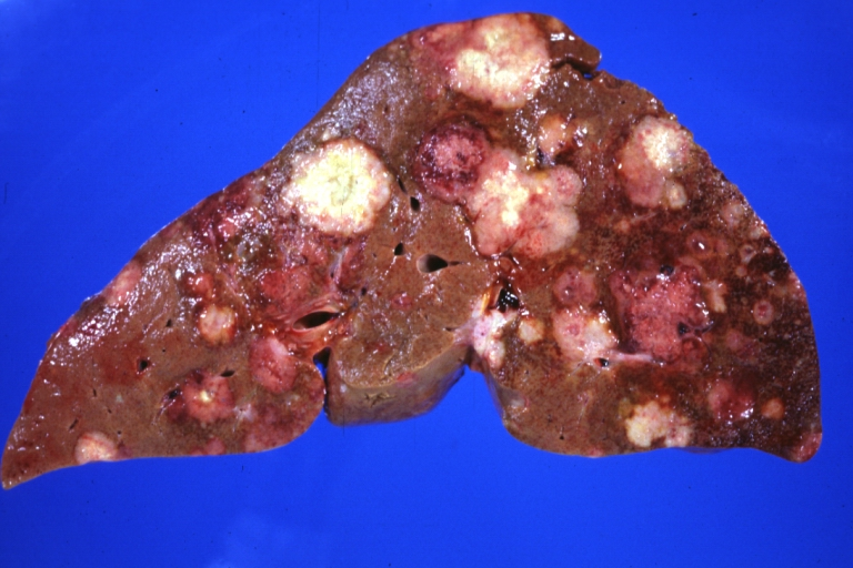 LIVER-BILIARY: Metastatic Carcinoma Pancreas: Gross natural color frontal section of leive with typical lesions